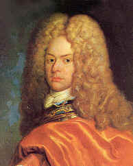 Christian Sigfred von Plessen (1696-1777)